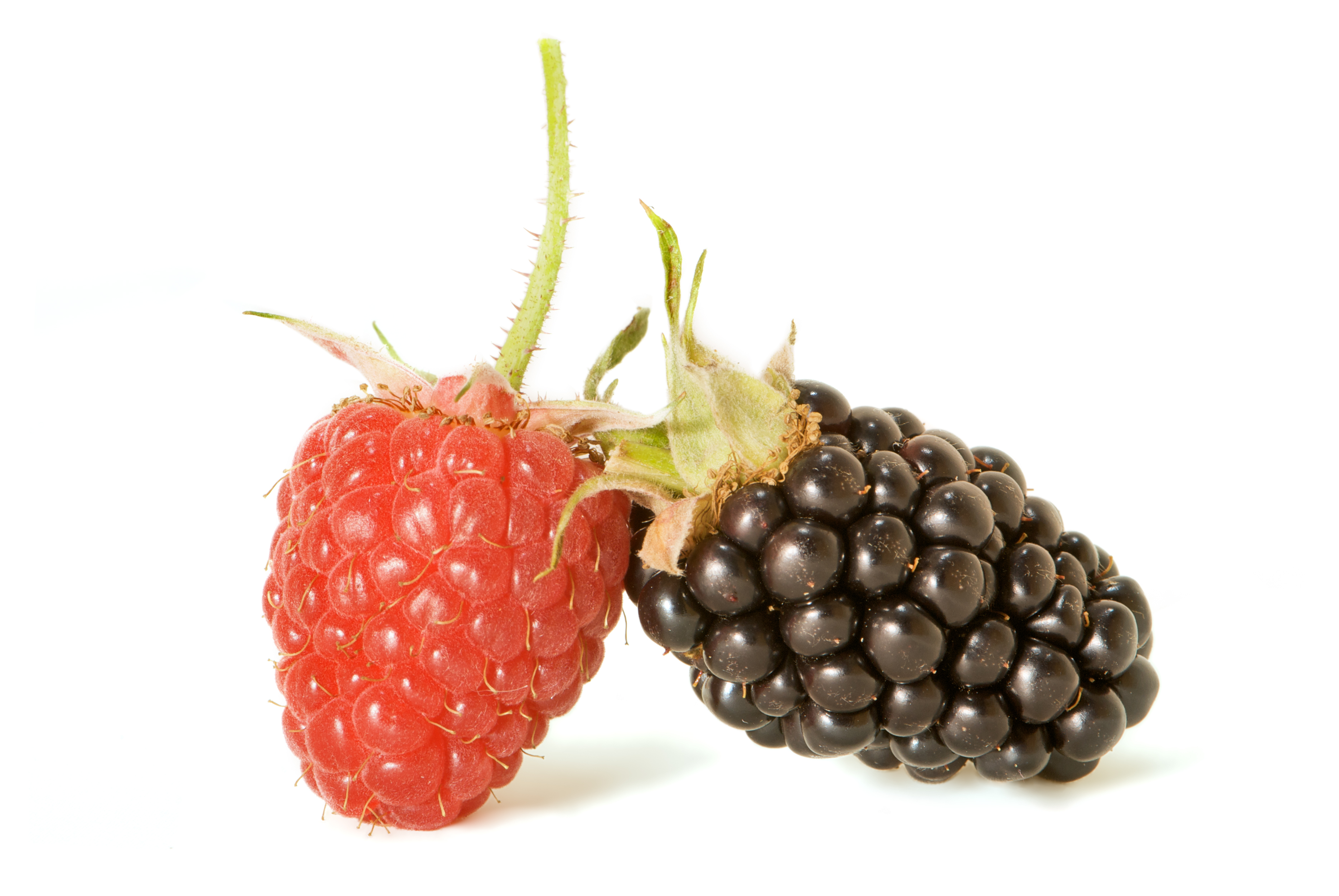 Two berries of the Rubus genus. The red one to the left is Rubus idaeus, which is commonly known as raspberry. Its length is approximately 26 mm (only the fruit part) and it measures about 18 mm at its widest diameter. The black berry to the right is Rubus fruticosus – the common blackberry – with a length of 33 mm and a maximum diameter of 17 mm. Both berries are food used by Homo sapiens sapiens and are therefore cultivated.